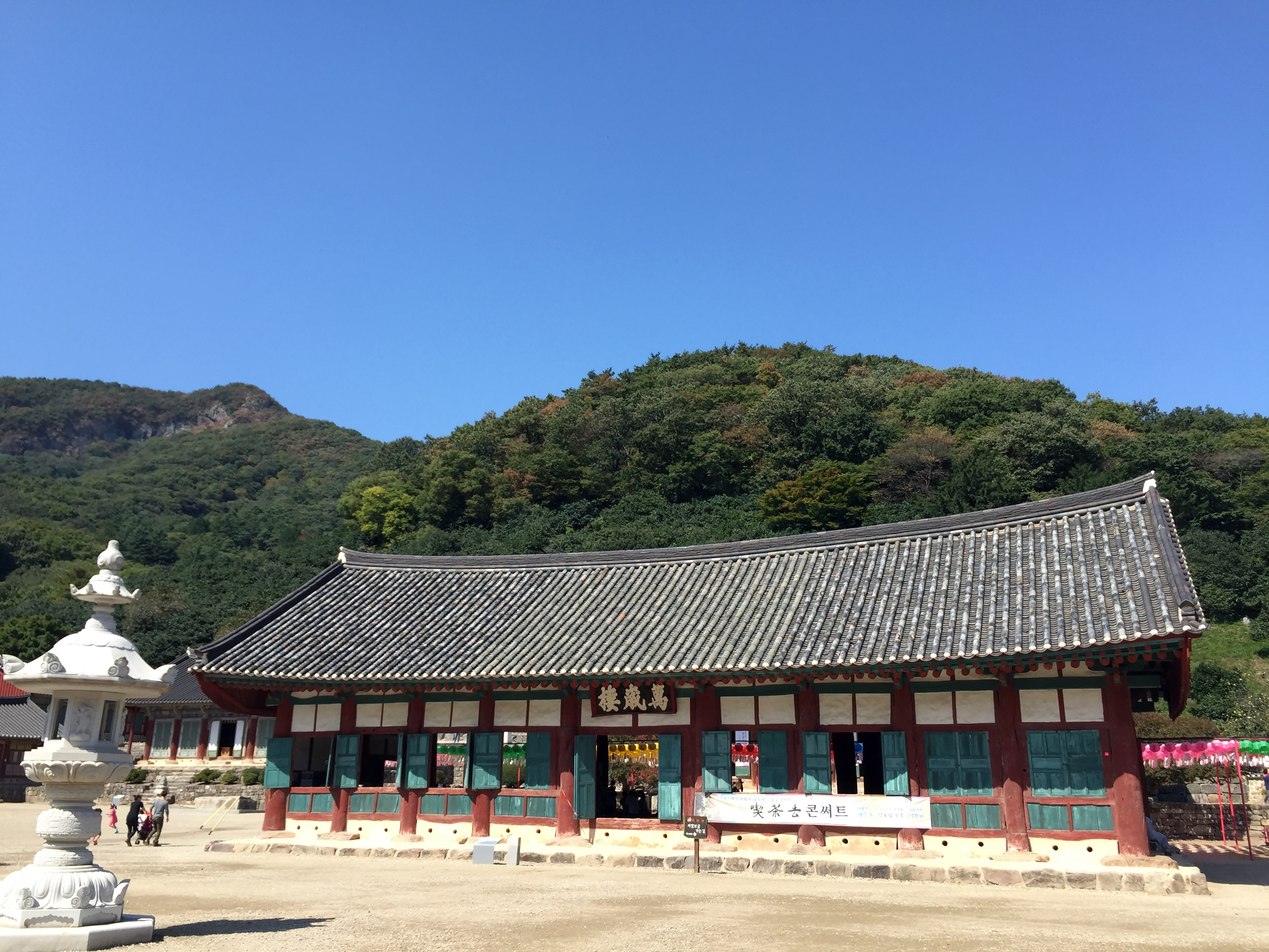 Mansaeru Pavilion at Seonunsa Temple in Gochang, South Korea